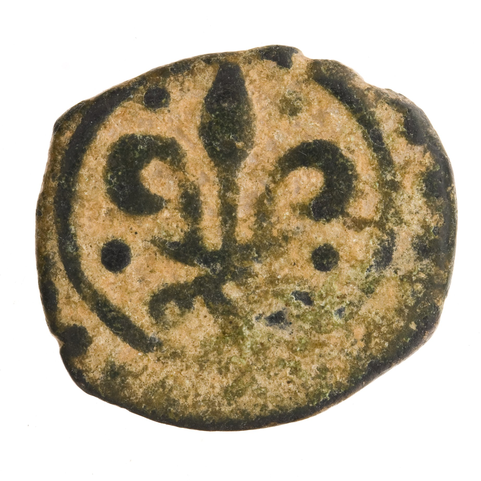 Copper alloy fals of Mamluk sultan al-Muzaffar Hajji minted in Aleppo in 1346/47